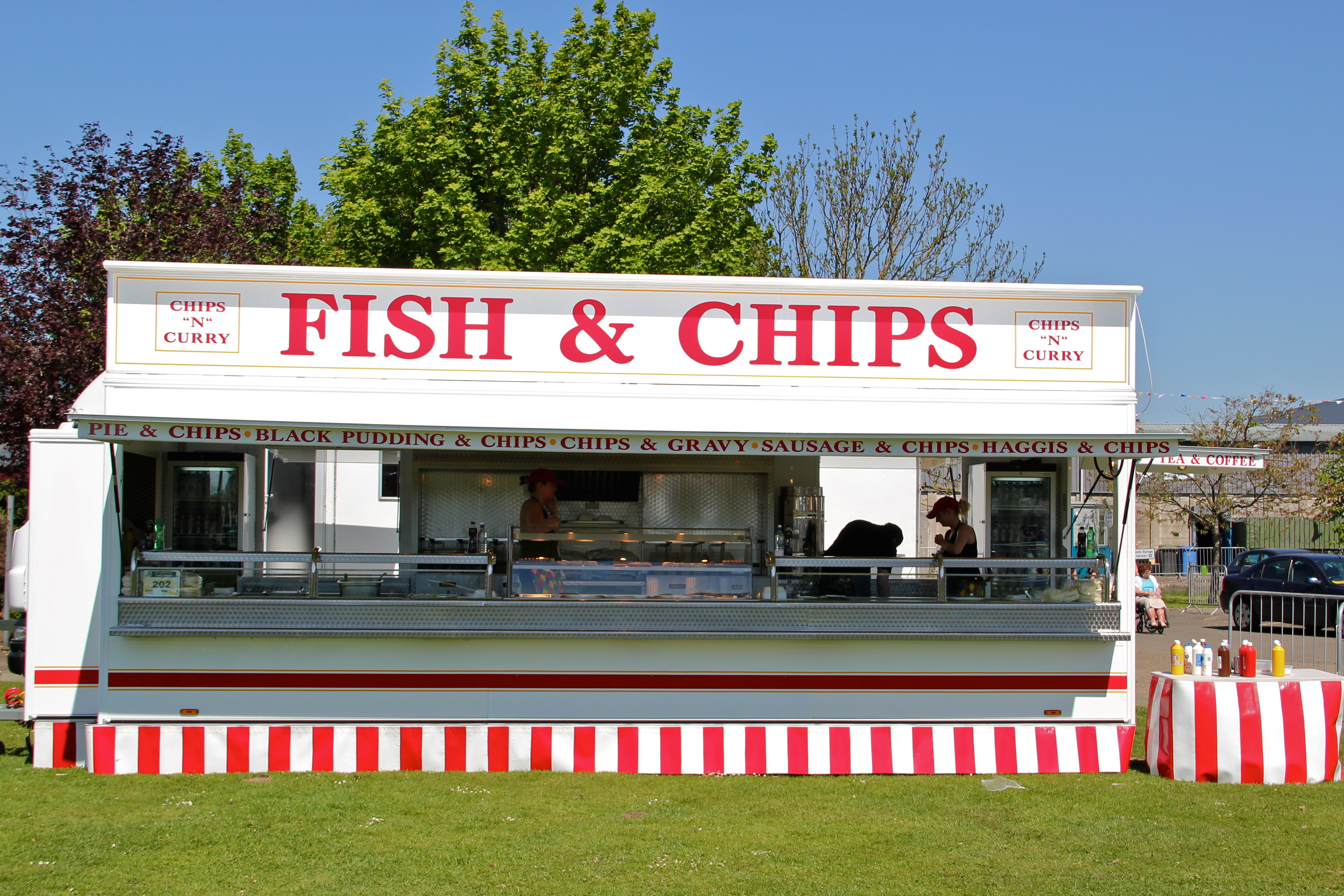 A mobile fish and chips wagon to cater for temporary occasions.